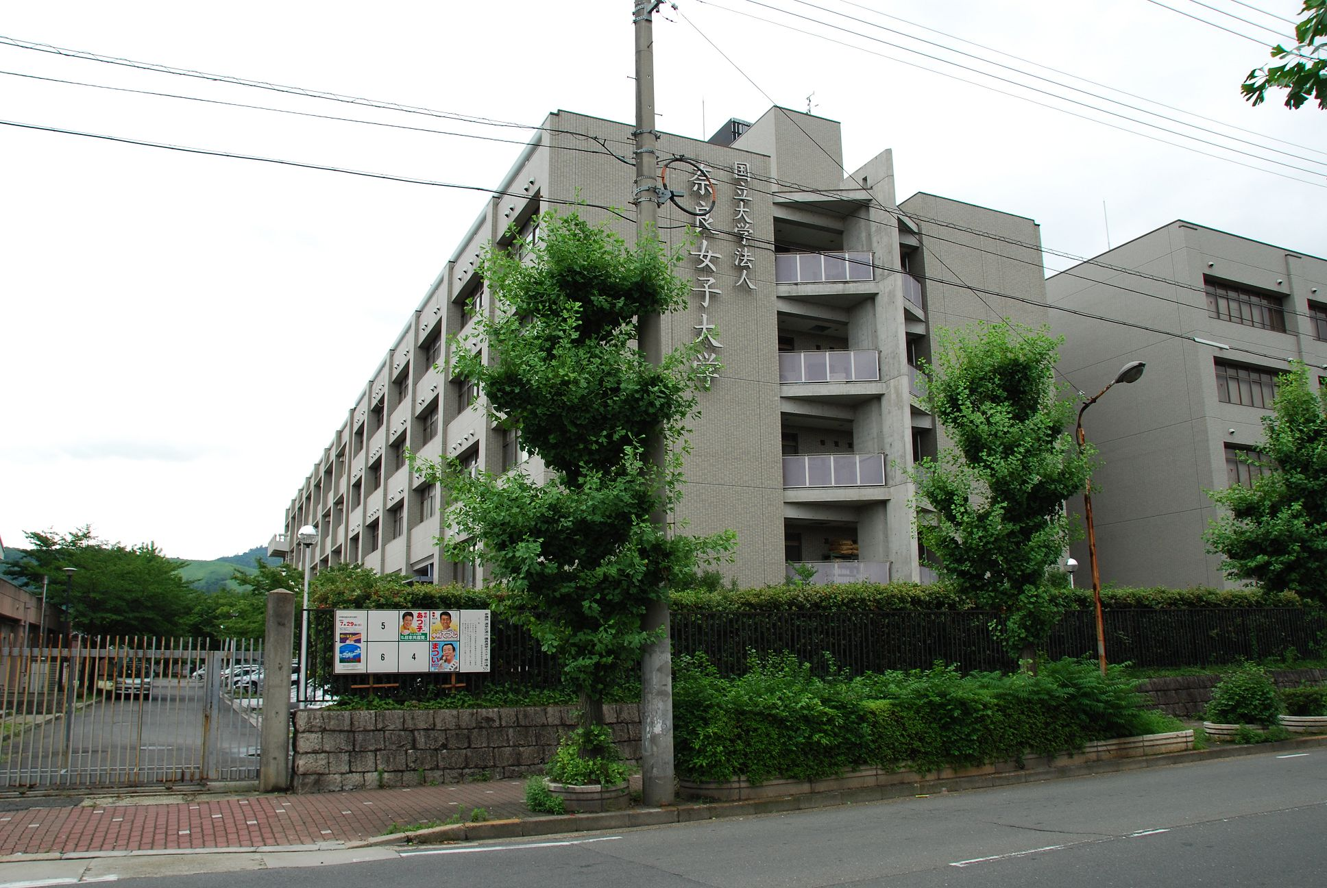 Horencho, Nara, Nara Prefecture 630-8113, Japan